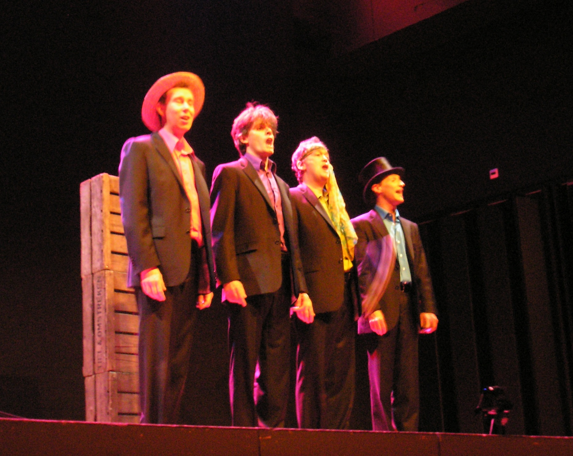 Vocal group "Mezzo Macho" from the Netherlands